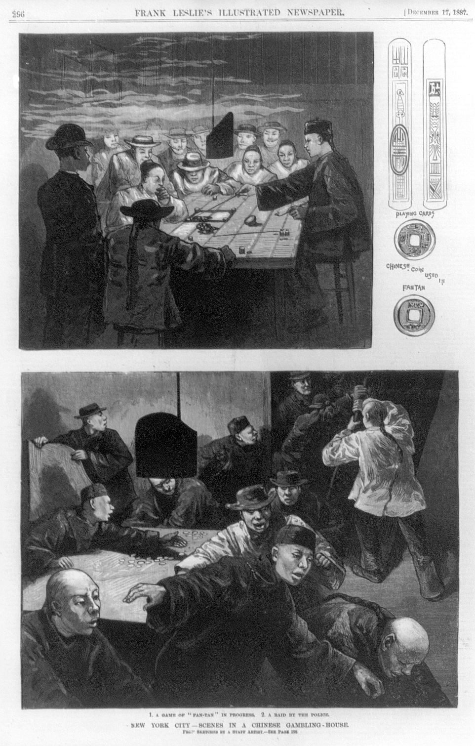 "New York scenes in a Chinese gambling-house. (1) A game of Fan-Tan in progress. (2) A raid by the police. [Top right:] Playing cards and Chinese coins used in Fan-Tan." Wood engravings in "Frank Leslie's Illustrated Newspaper", vol. 65, no. 1683, 17 December 1887, p. 296.